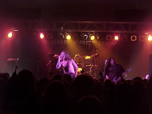 Fear Factory in concert.